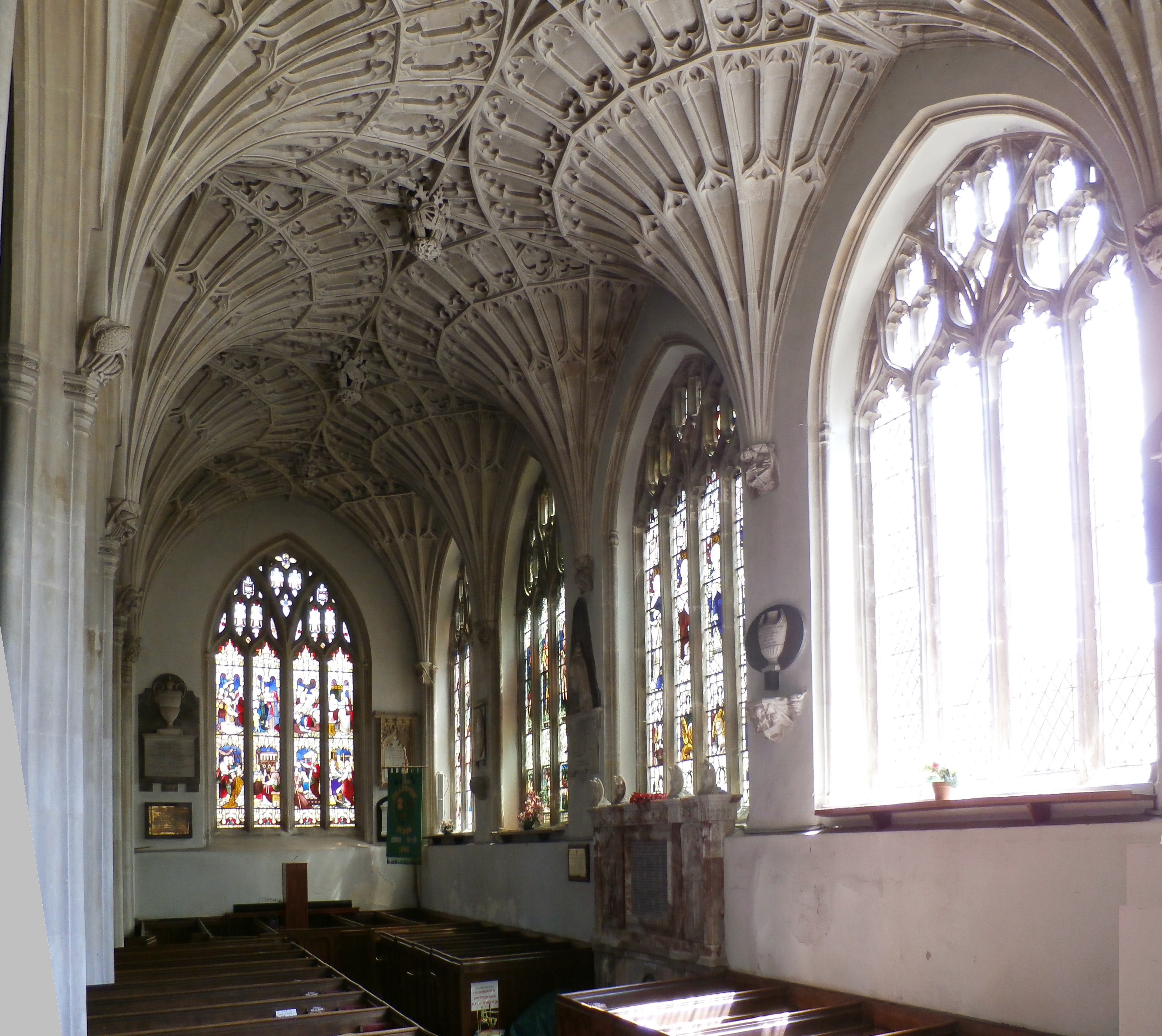 Lane Chapel, Cullompton Church, Devon, built by John Lane (died 1529), merchant.